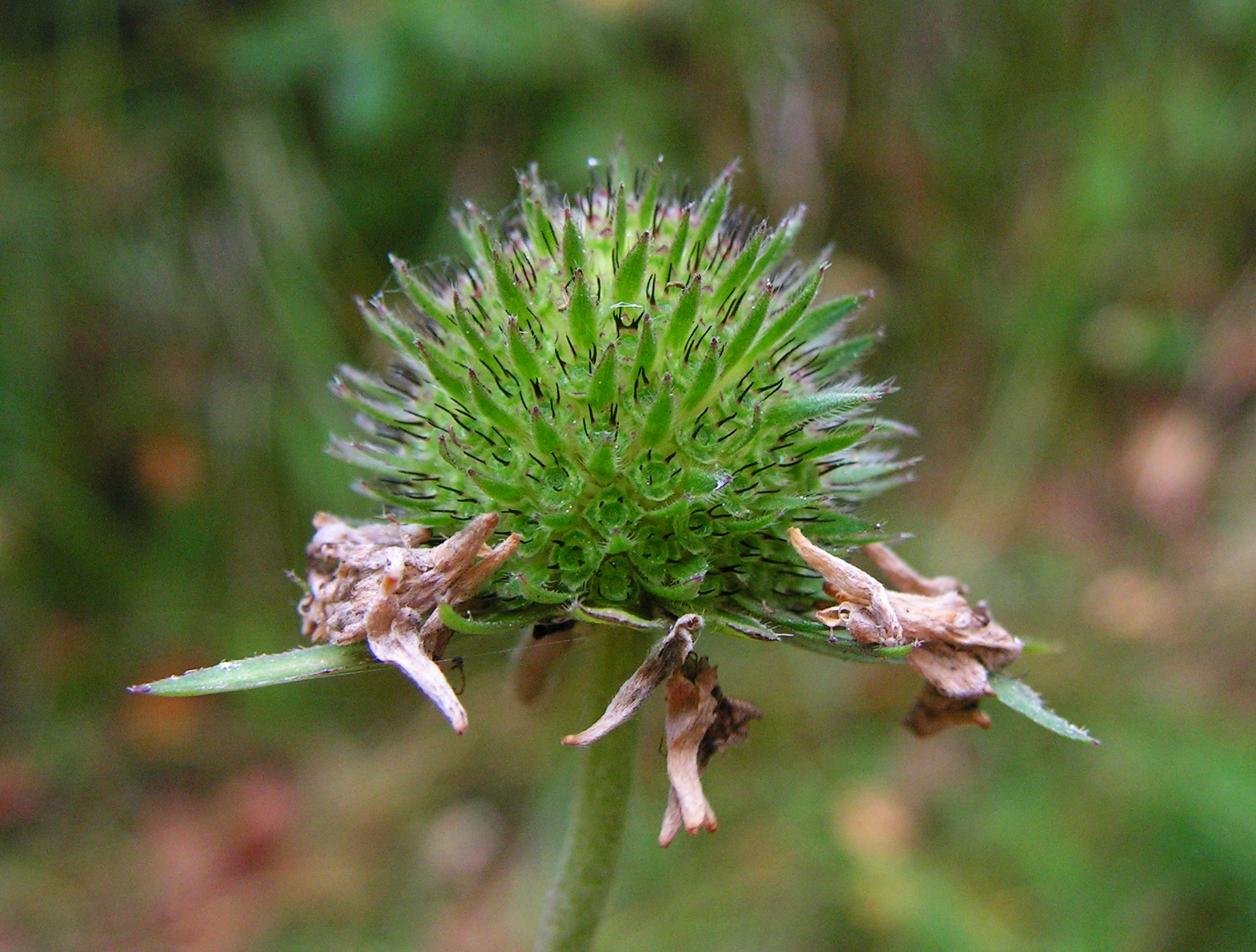 The inflorescence, completed the flowering, of the devil's bit scabious (Succisa pratensis). Moscow region, Russia.